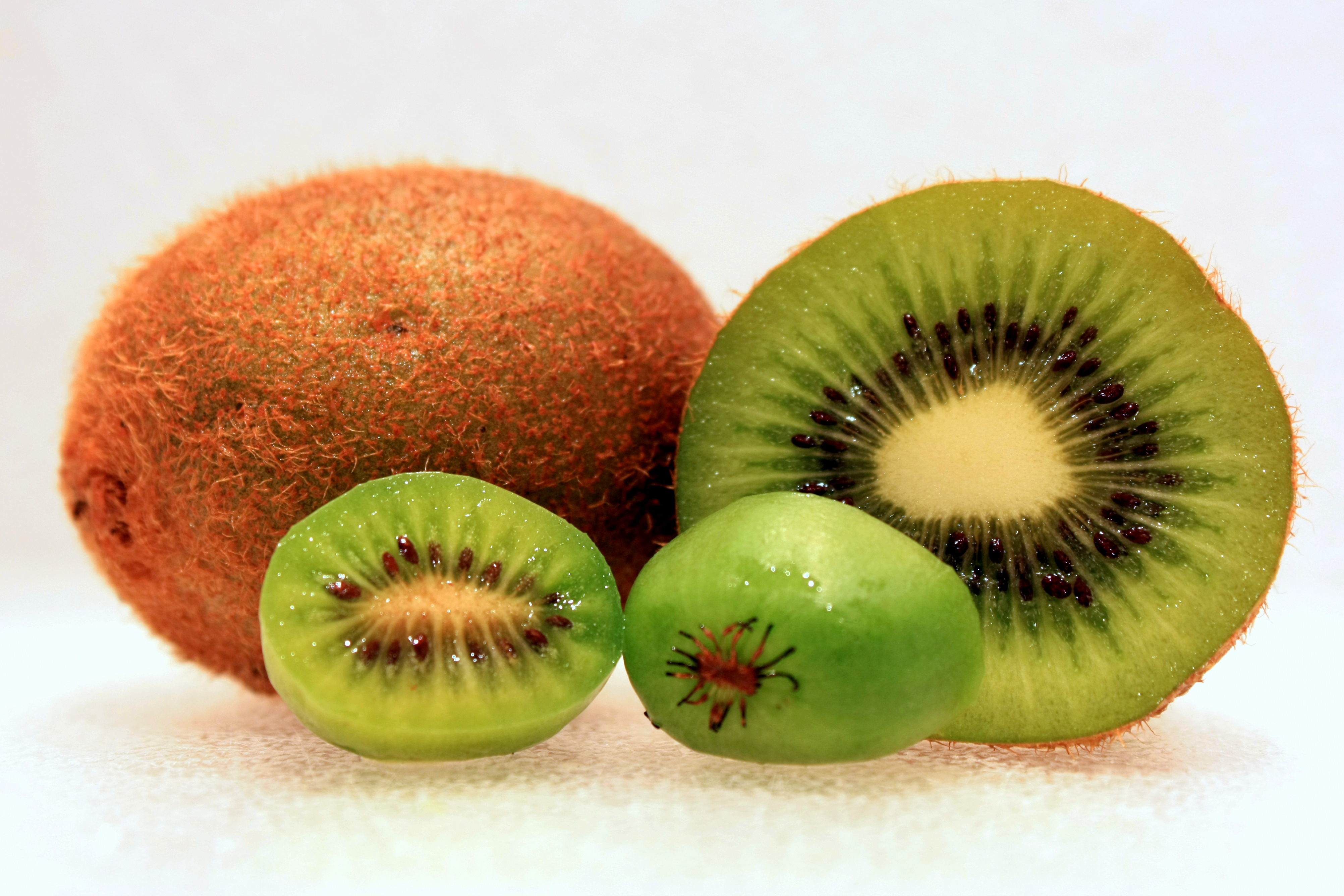 Comparison of whole and cross-sectioned Kiwifruit and Hardy Kiwifruit.